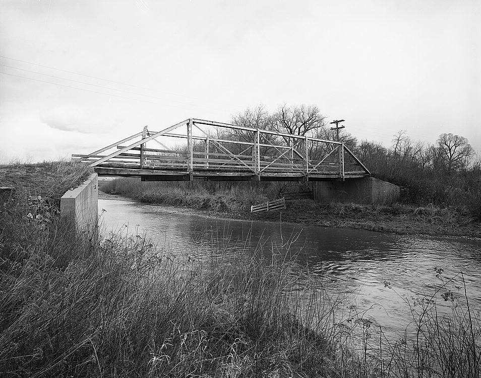 The Kooi Bridge, also called the Tongue River Bridge, near Monarch, Wyoming, which is listed on the National Register of Historic Places.